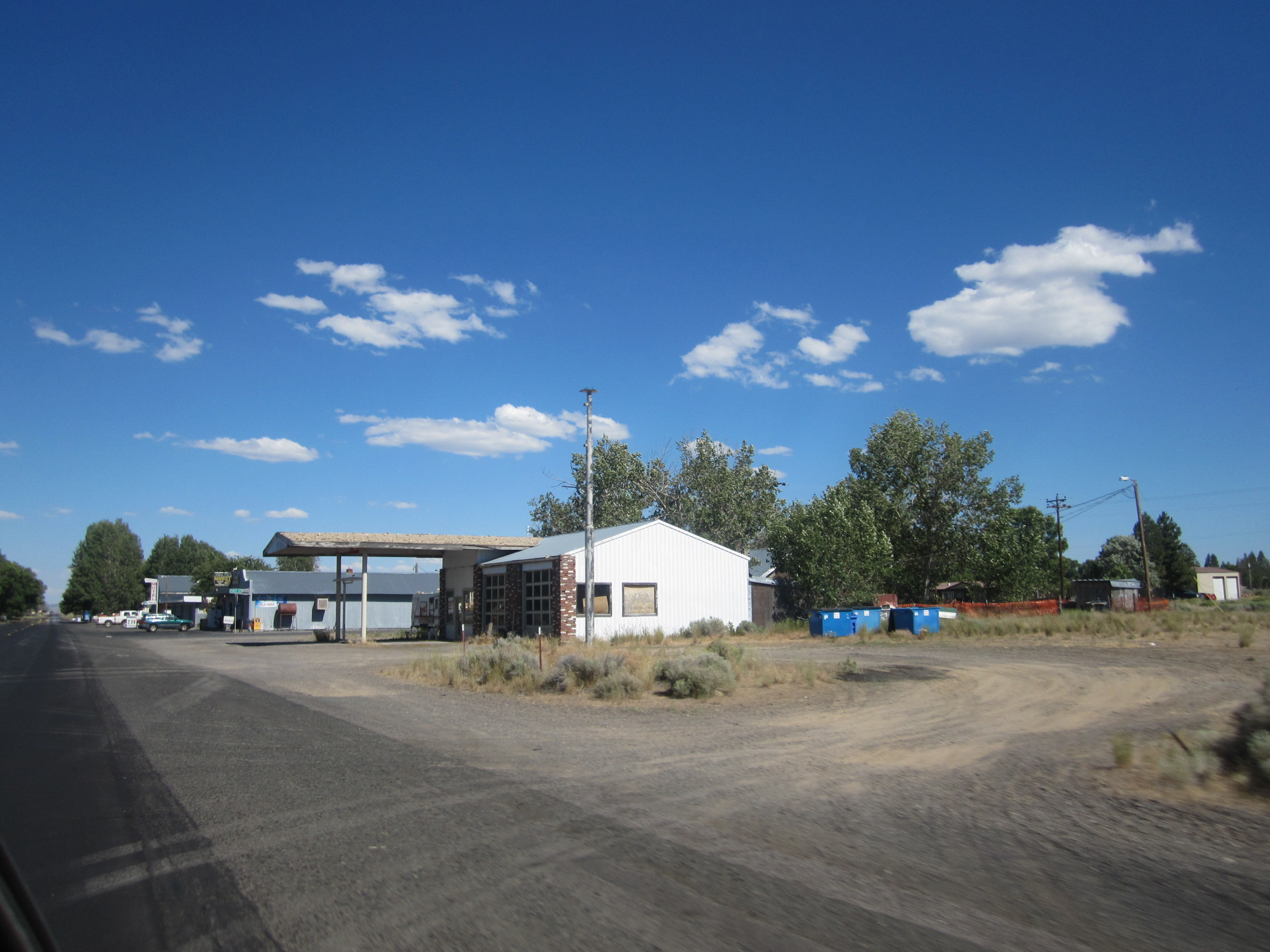 Silver Lake, Oregon